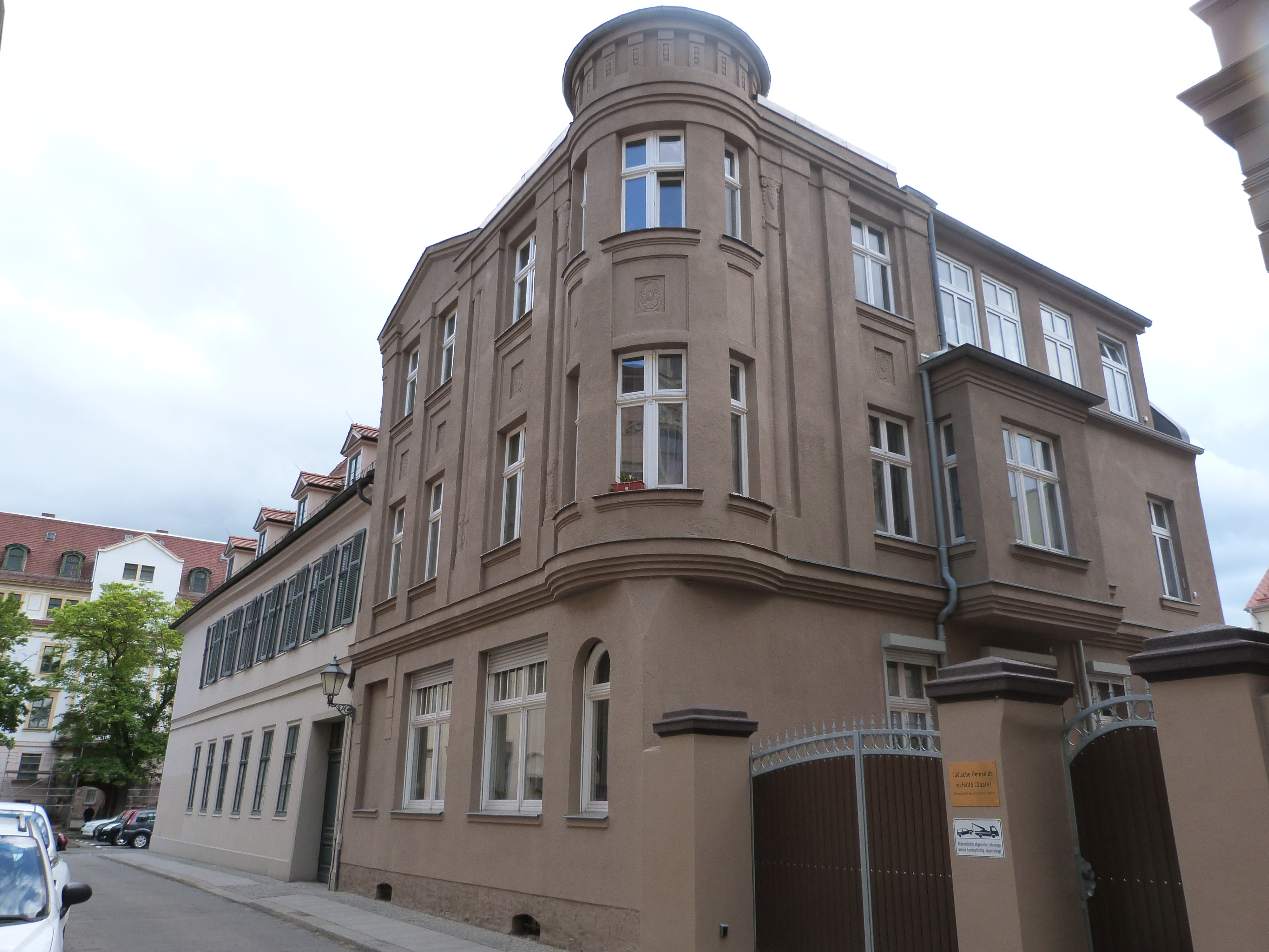 House No. 13a, Grosse Märkerstrasse, Halle (Saale)